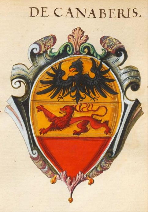 rare coat of arms from Milan belonging to the Canaberis family.